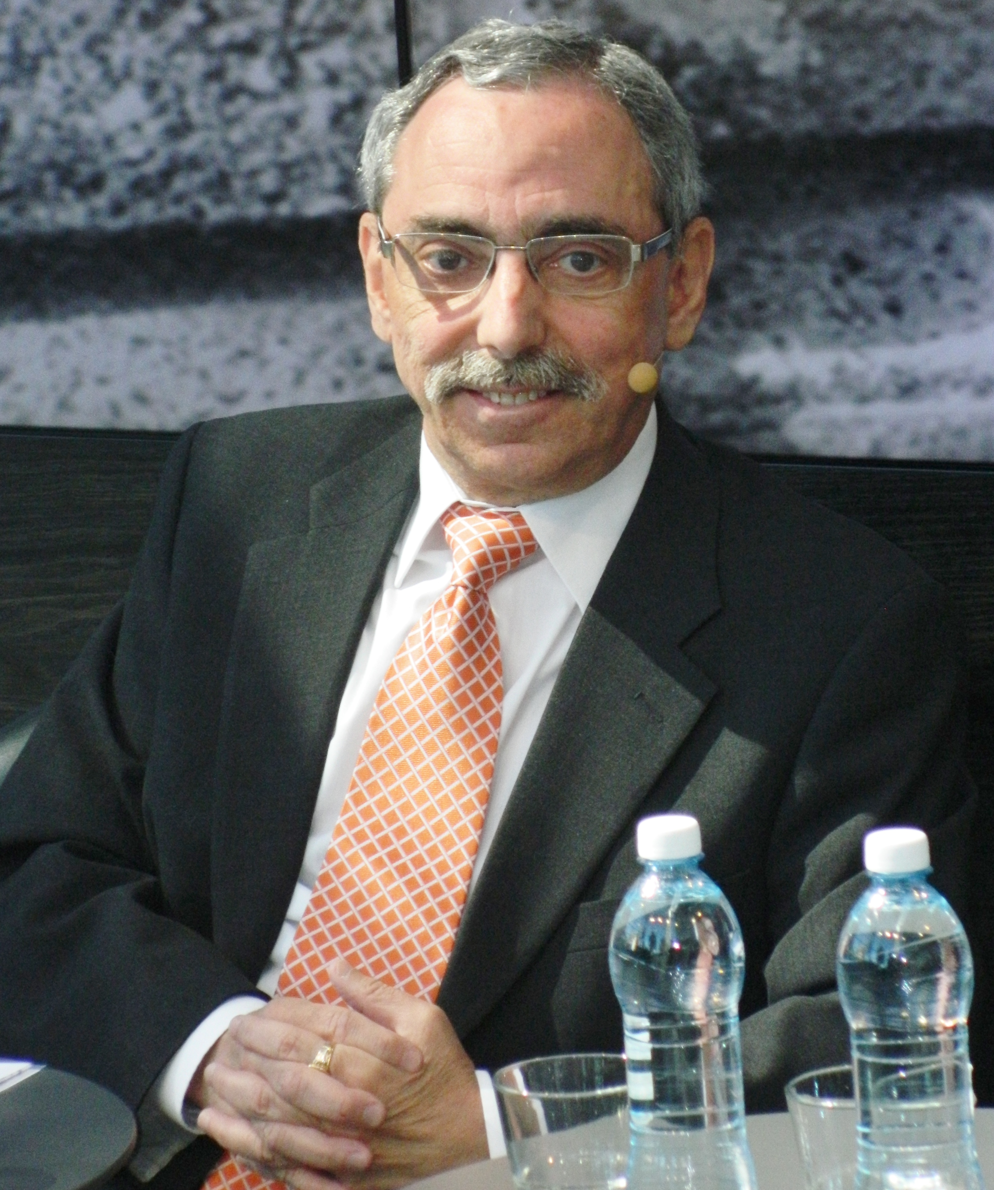 Ben Zyskowicz at the Sanomatalo Media Center, Helsinki